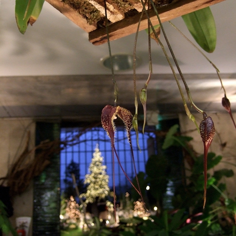 Dracula wallisii at Kiseki No Hoshi Greenhouse (Miracle Planet Museum of Plants), Japan